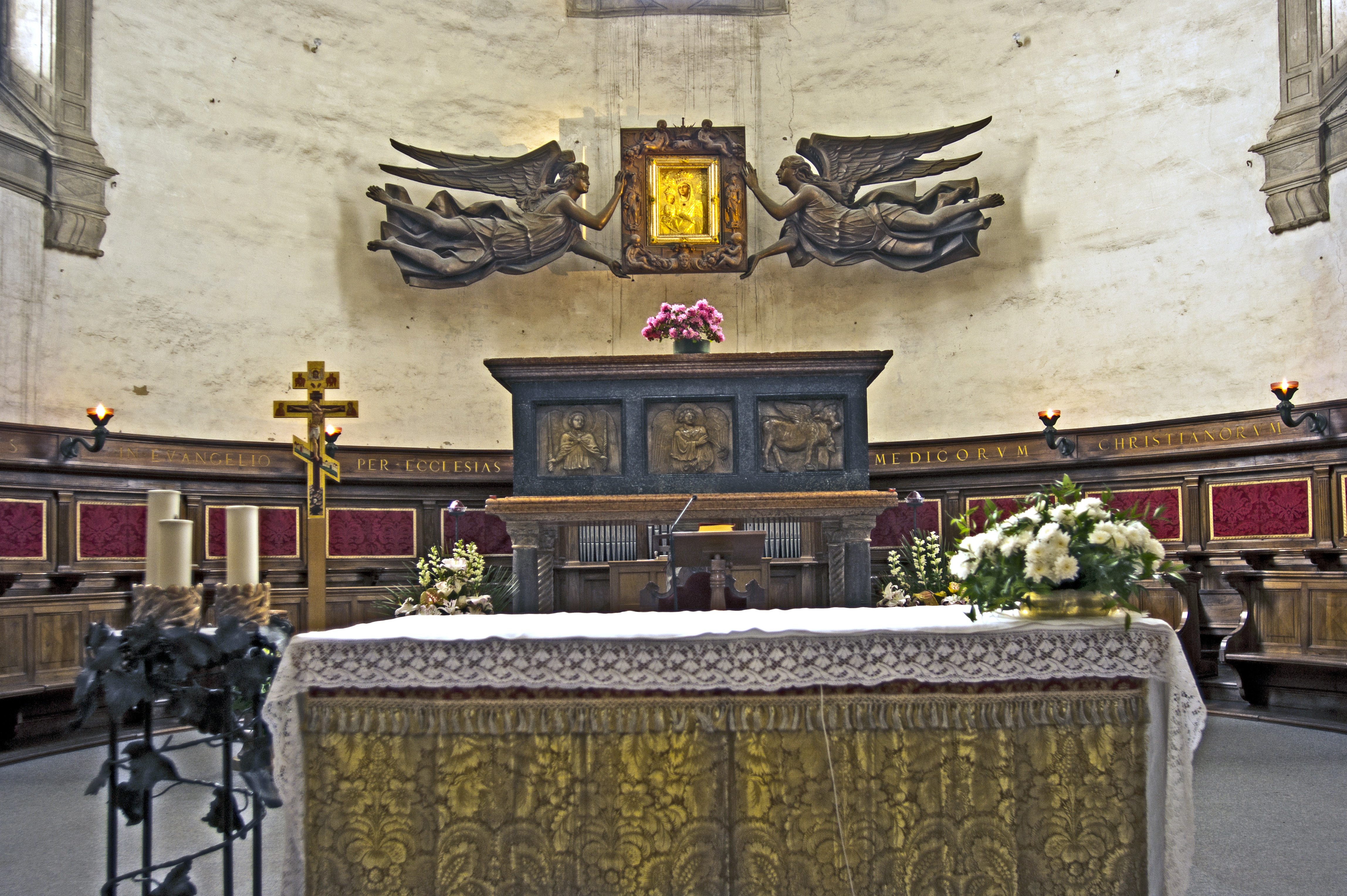 Churche Saint Justina of Padua in Italy. Reliquary of St. Luke the Evangelist. Alabaster bas-reliefs of Pisan inspiration.